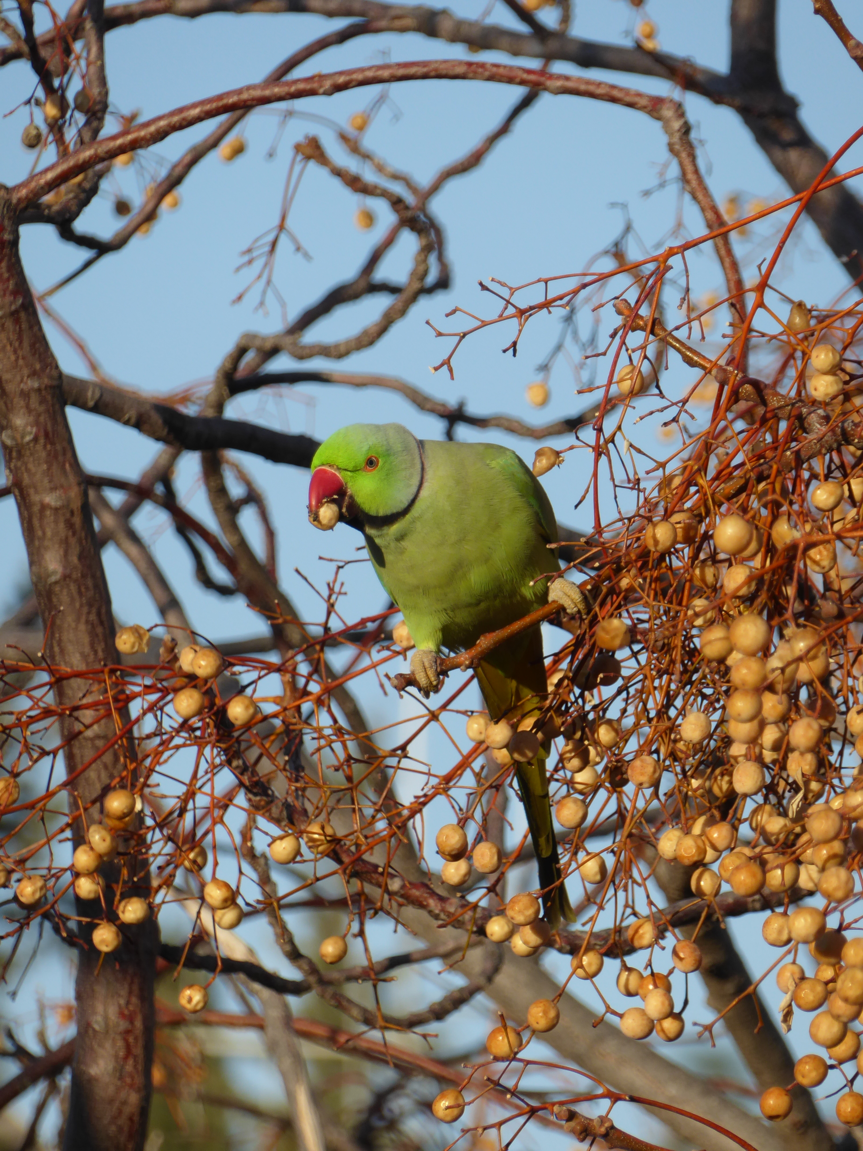 Animals of Israel